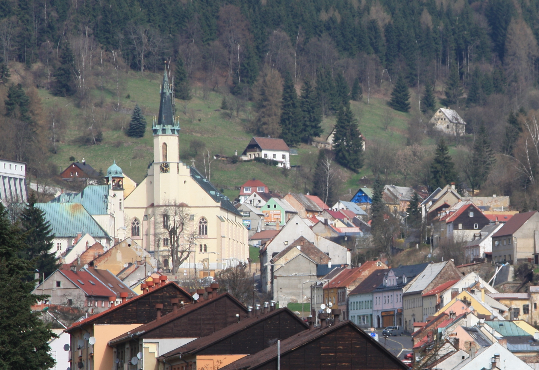 St. Joachim and St. Anne's Church, Jáchymov, Czech Republic